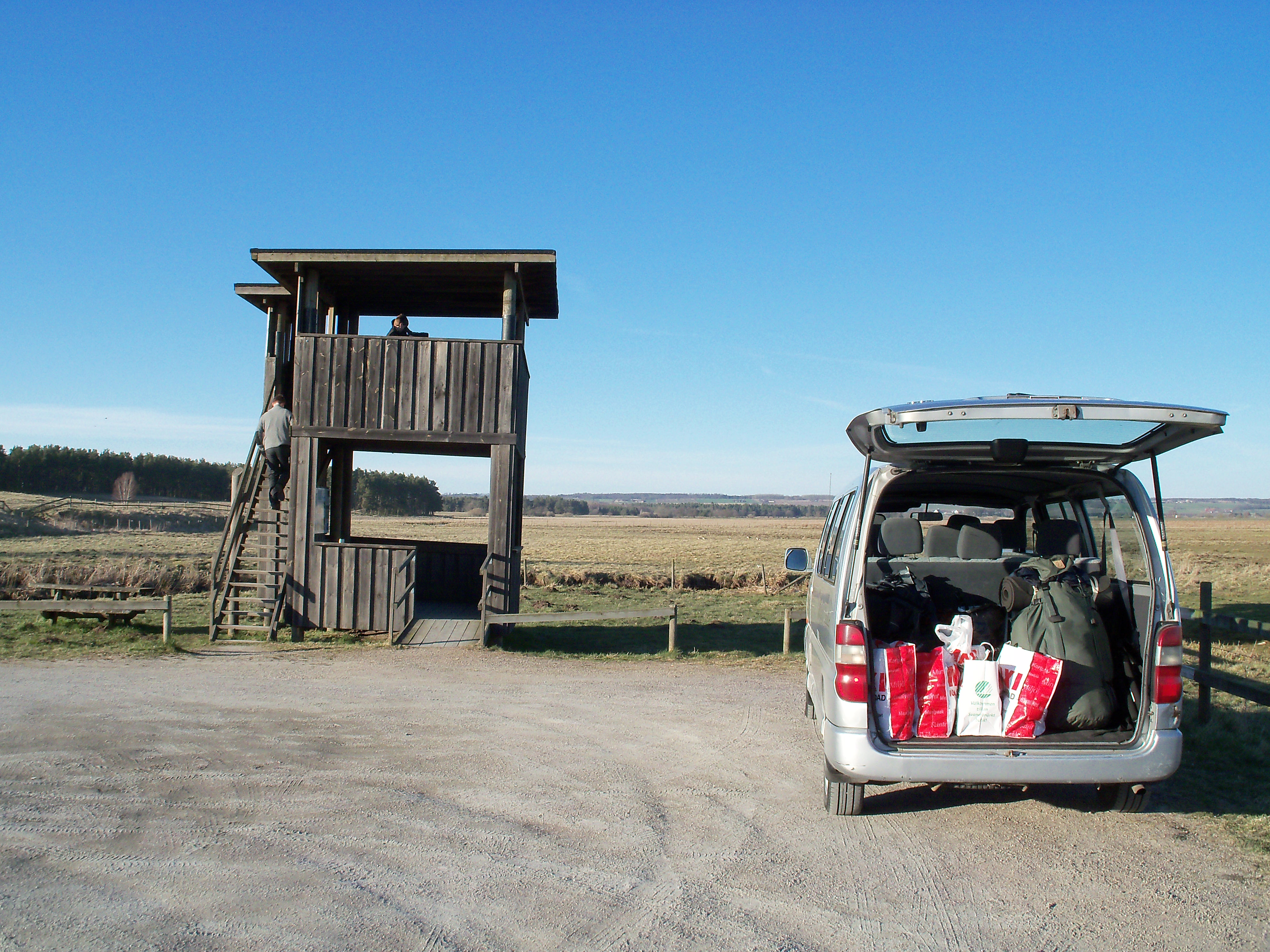 A birdwatching trip to Vombs ängar in Scania County in Sweden arranged by the Scania district of Nature and Youth Sweden, in April 2012. The mini van, parked at the parking space of Vombs ängar was used by the excursion, and the tower visible is one of the two birdwatching towers of Vombs ängar.